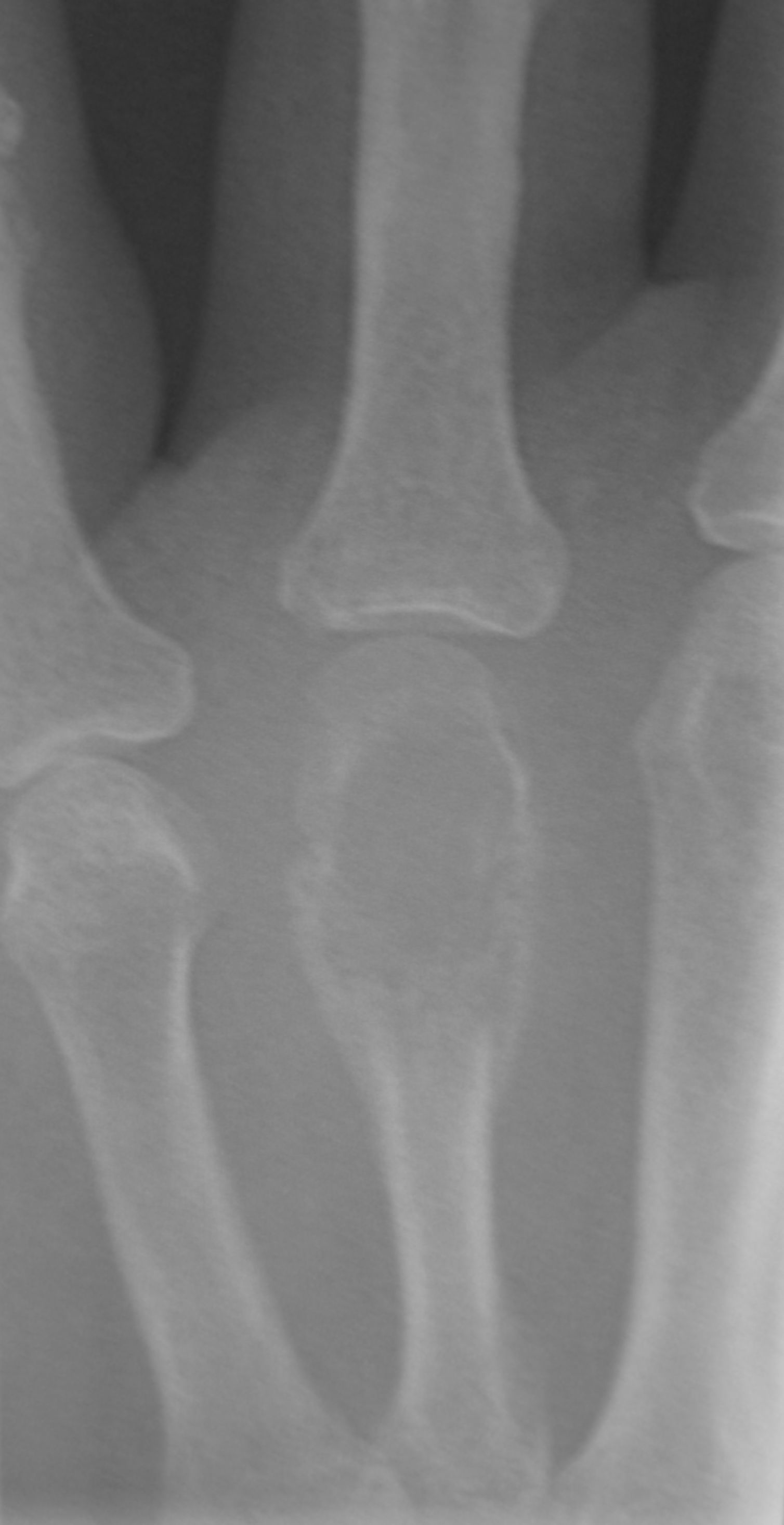 Giant cell bone tumor in the head of the 4th metacarpal of the left hand. The location suggests an Enchondroma as differential diagnosis.